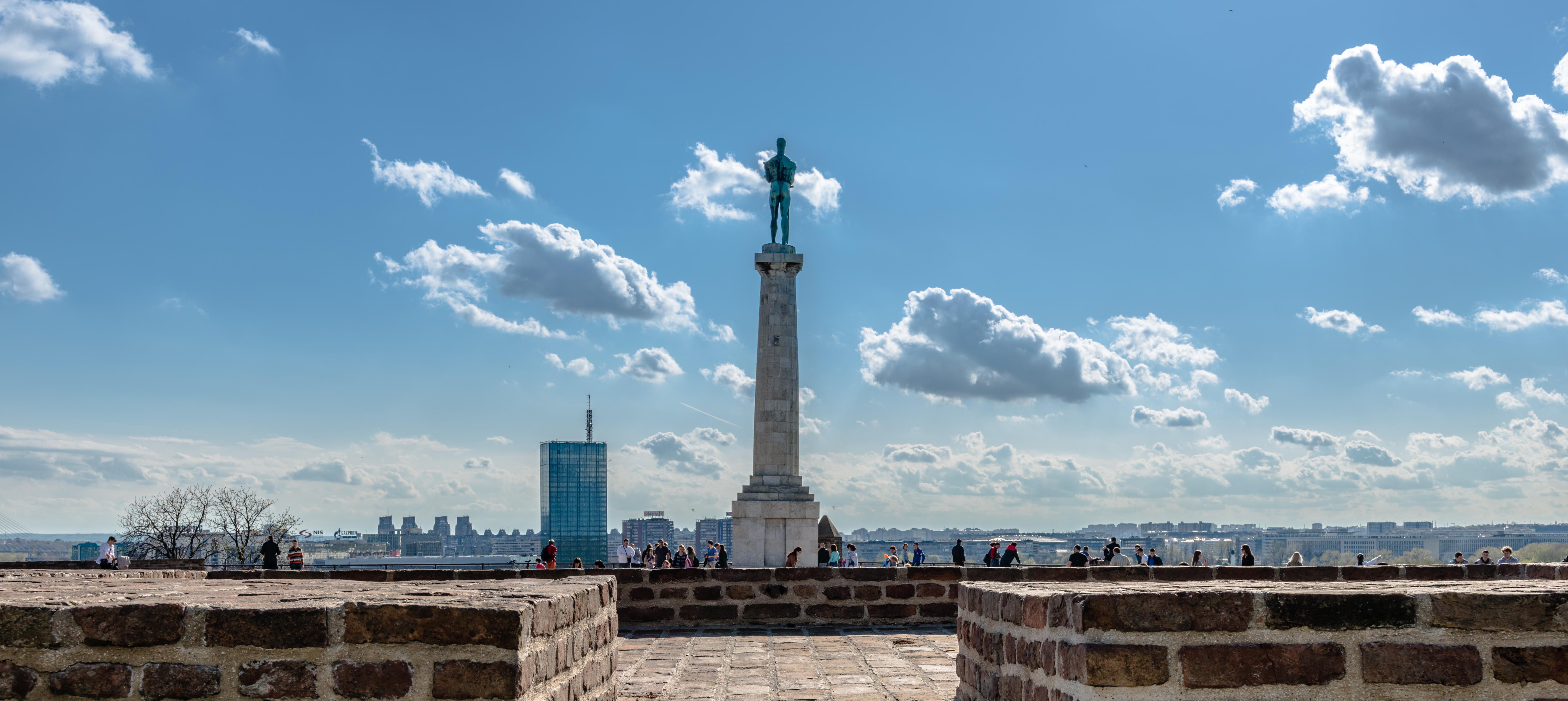 Pobednik monument, Kalemegdan, Belgrade